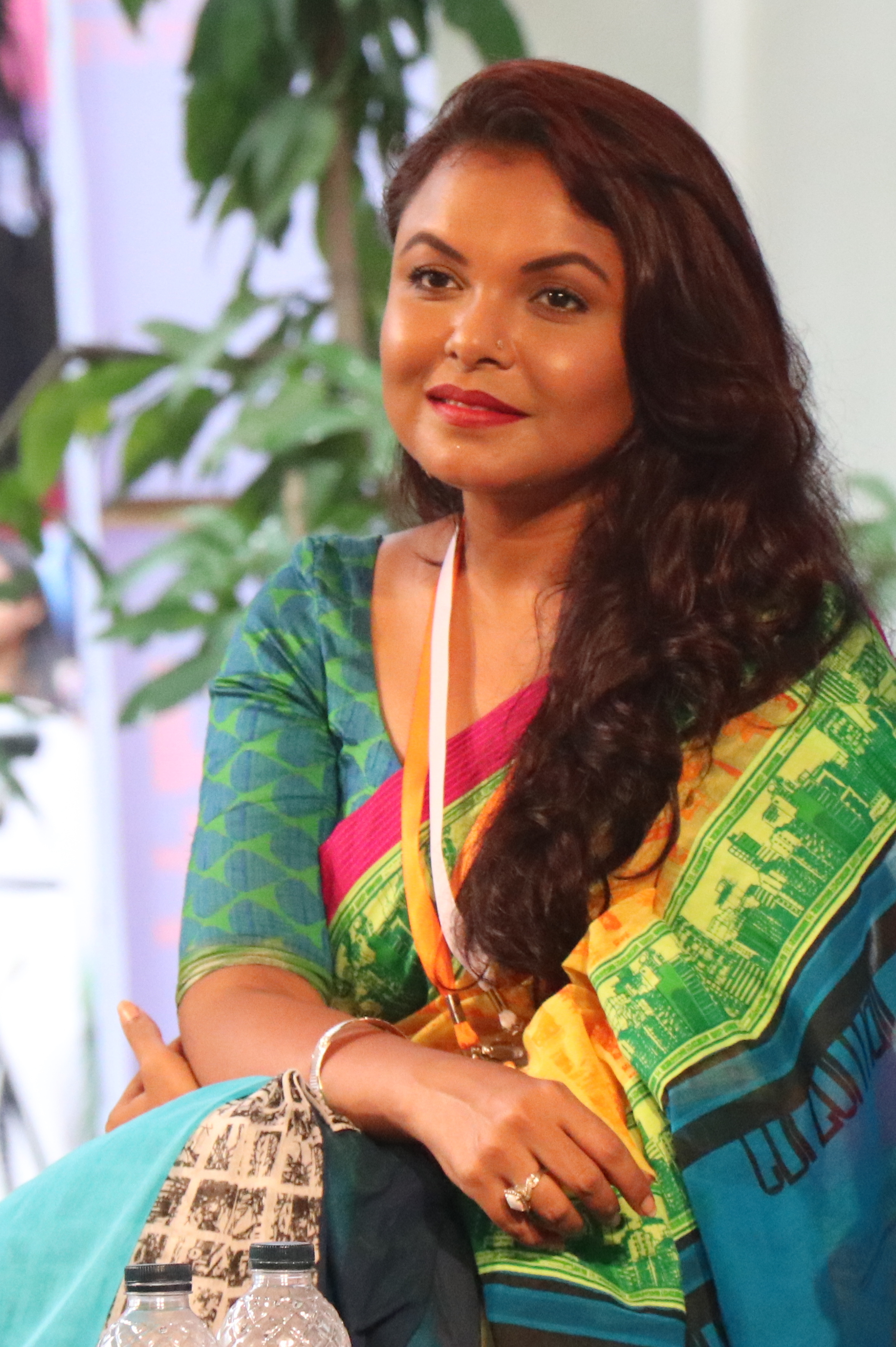 Discussion on Humayun Ahmed cinema at Dhaka Lit Fest 2017